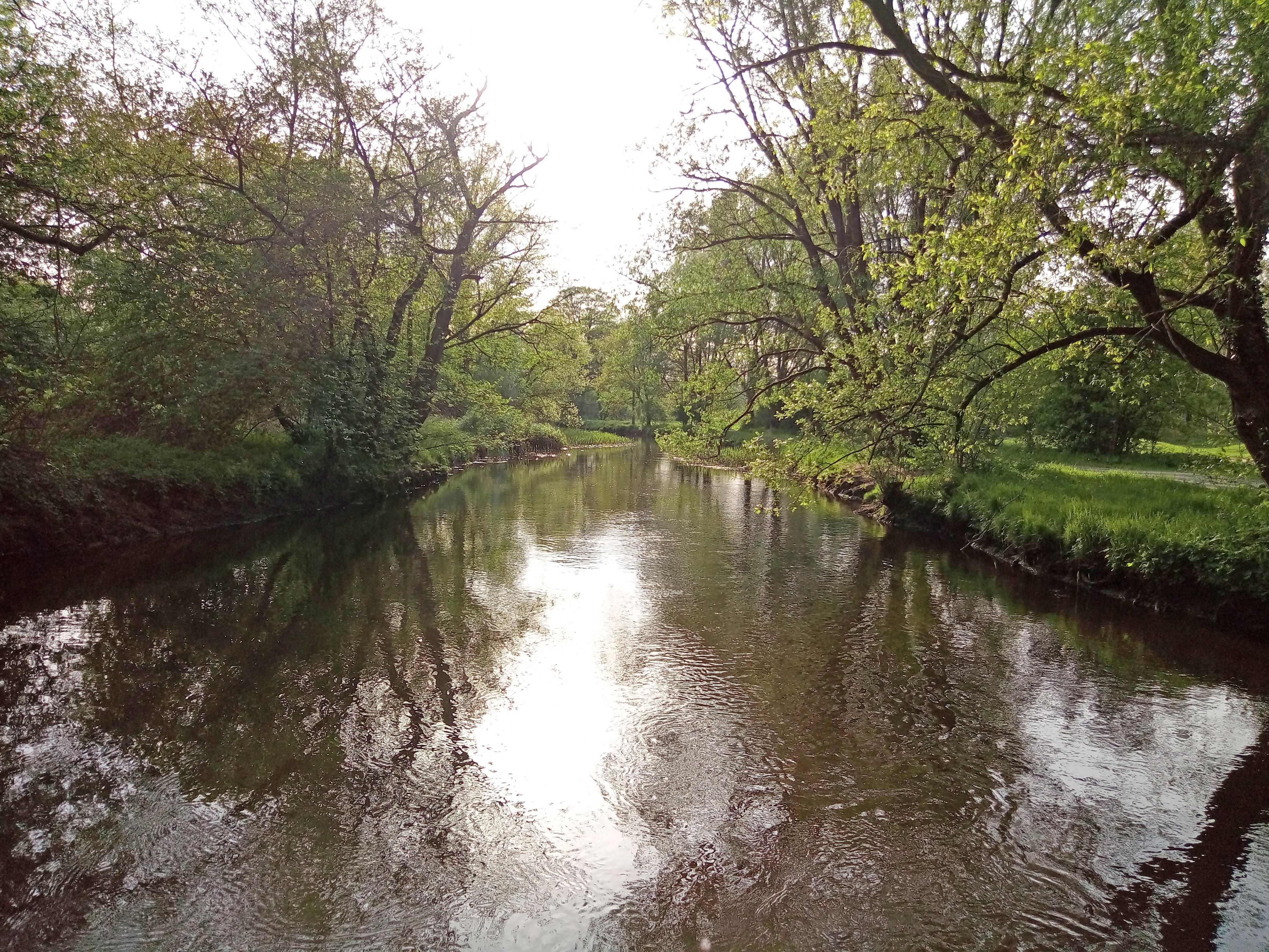 The Wiedau river in Rotenburg (Wümme), metres after taking in the slightly smaller Rodau river. The river continues at this width for less than half a kilometre, after which it splits up into two seperate arms, each joining the Wümme river shortly after.